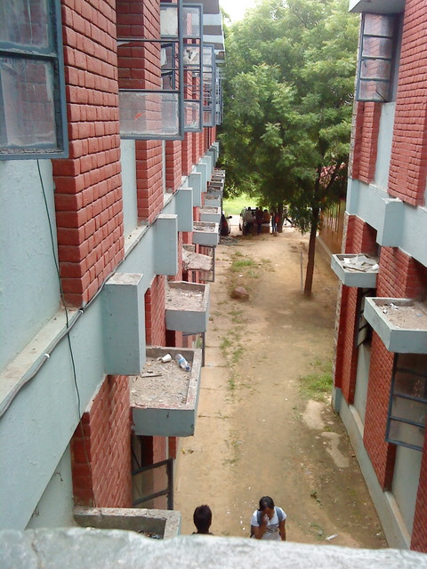 A view from inside a building at Atma Ram Sanatan Dharma College (ARSD) College, Delhi, India